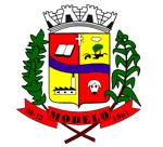 Coat of arms of the municipality of Modelo - SC - Brazil